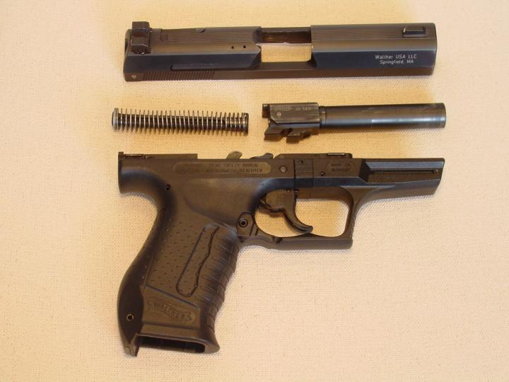 Shows a Walther P99 with a .40 S&W barrel disassembled. Category:Images of guns